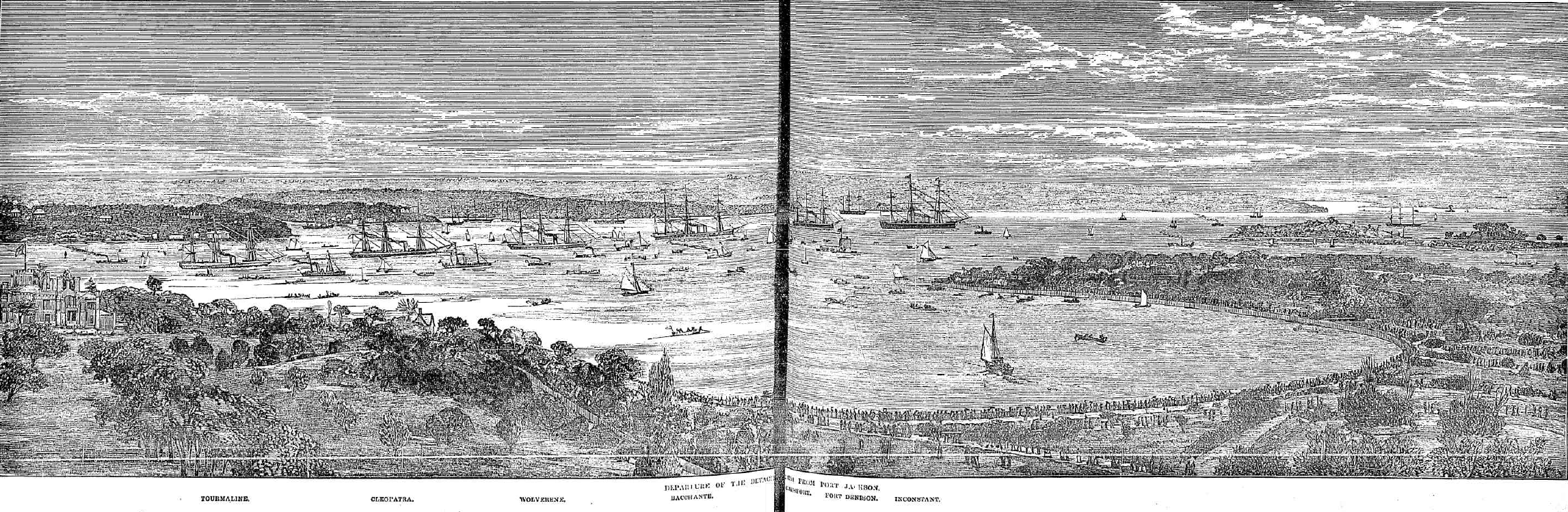 Departure of the detached squadron (HMS Tourmaline, Cleopatra, Wolverene, Bacchante, Carysfort, Inconstant) from Port Jackson, 10 August 1881. Fort Denison can be seen in the centre.